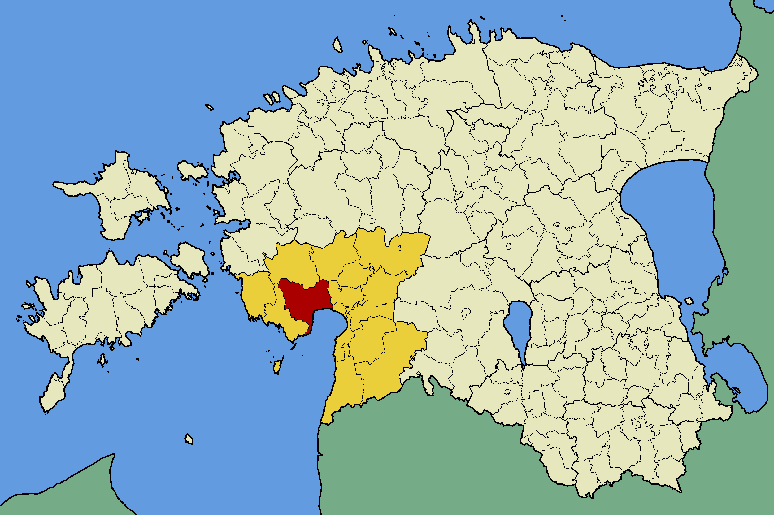 Map of Estonia with borders of municipalities (parishes). Pärnu county and Audru municipality emphasized.